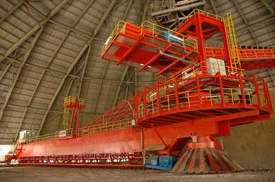 WIKA REKAYASA KONSTRUKSI